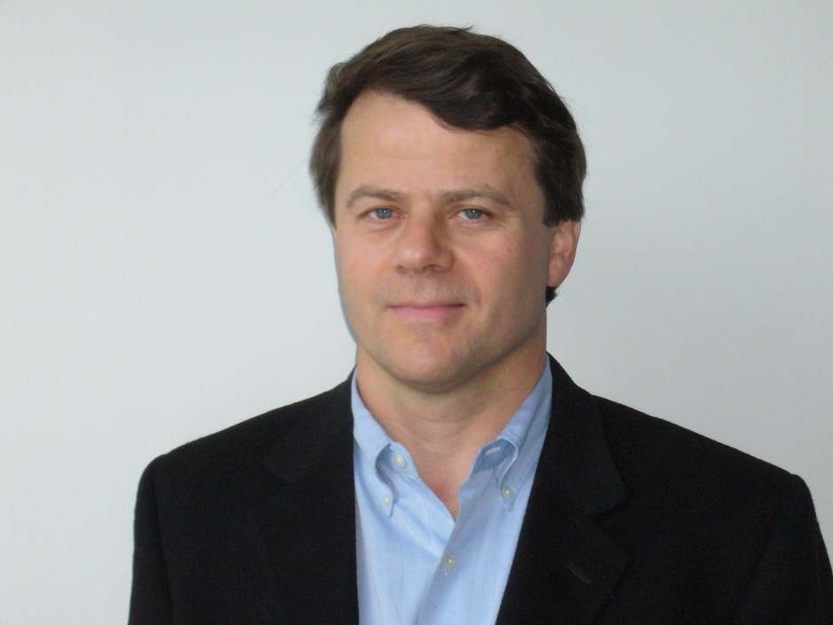 Head shot of Greg Kats